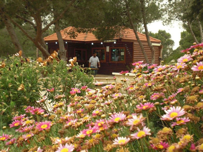 IT-center and Faculty of Science & Technology